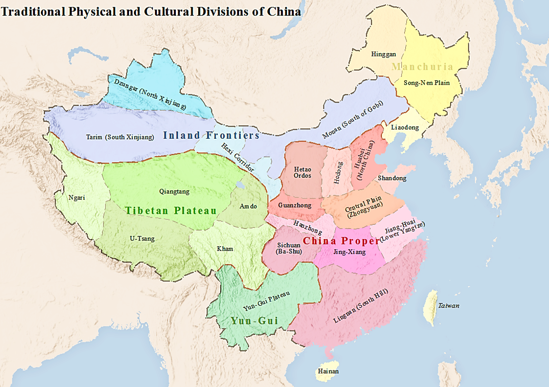 Traditional physical and cultural divisions of China